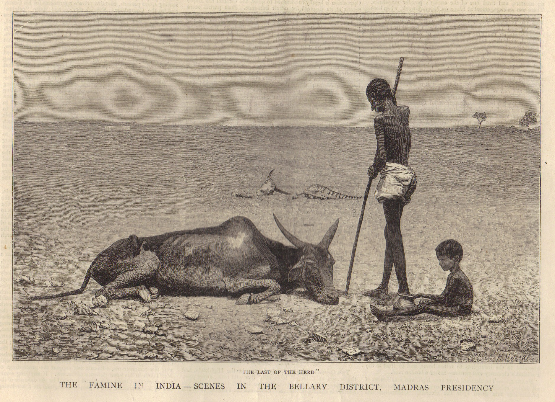 Engraving from personal copy of The Graphic, 6 October 1877, entitled "The last of the herd," about the plight of animals as well as humans in the Bellary district of the Madras Presidency, British India during the Great Famine of 1876–78.